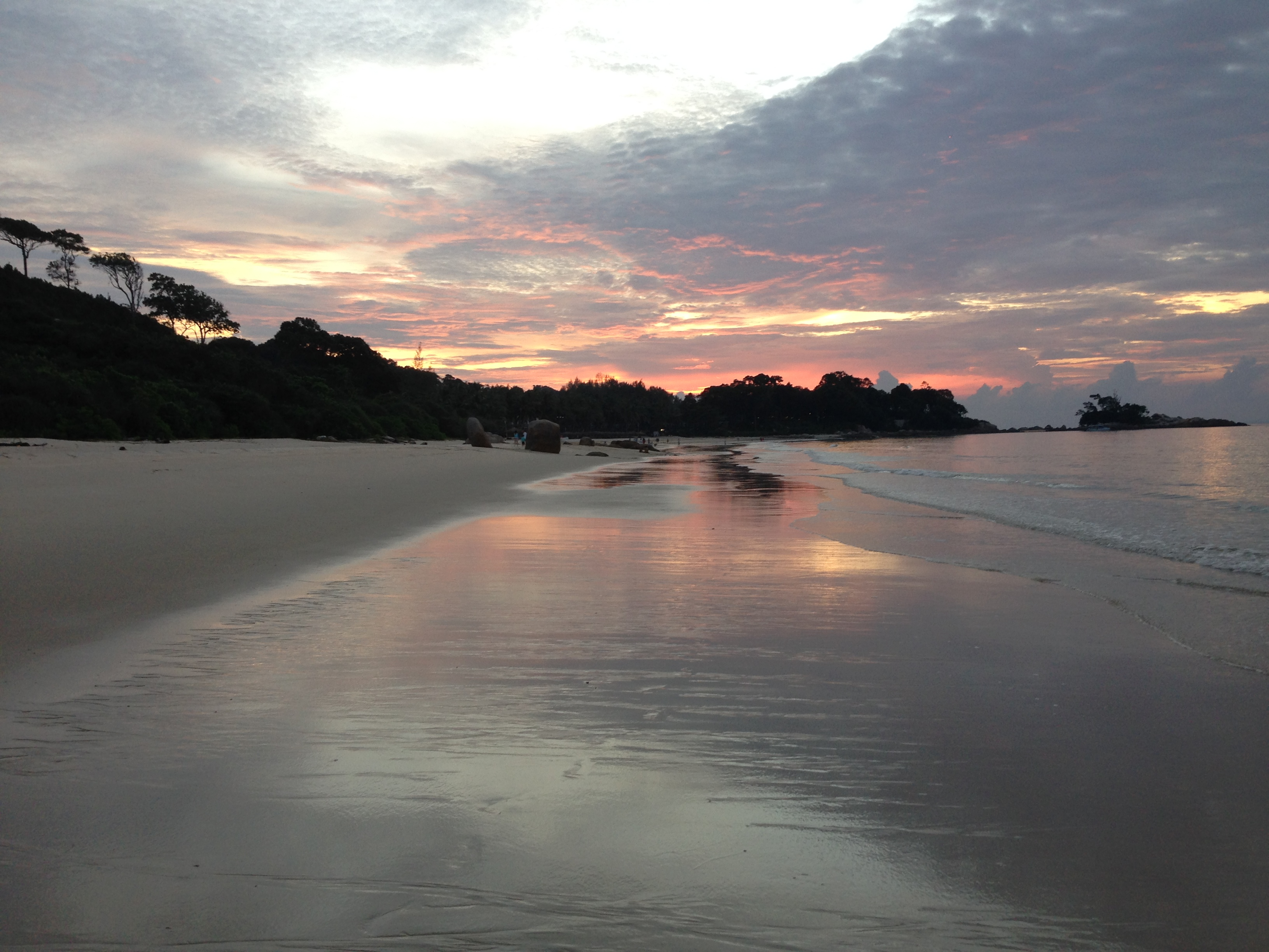 Bintan north beach